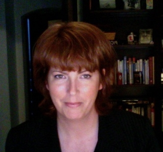 Photograph of Maureen Ryan, American critic, writer and artist